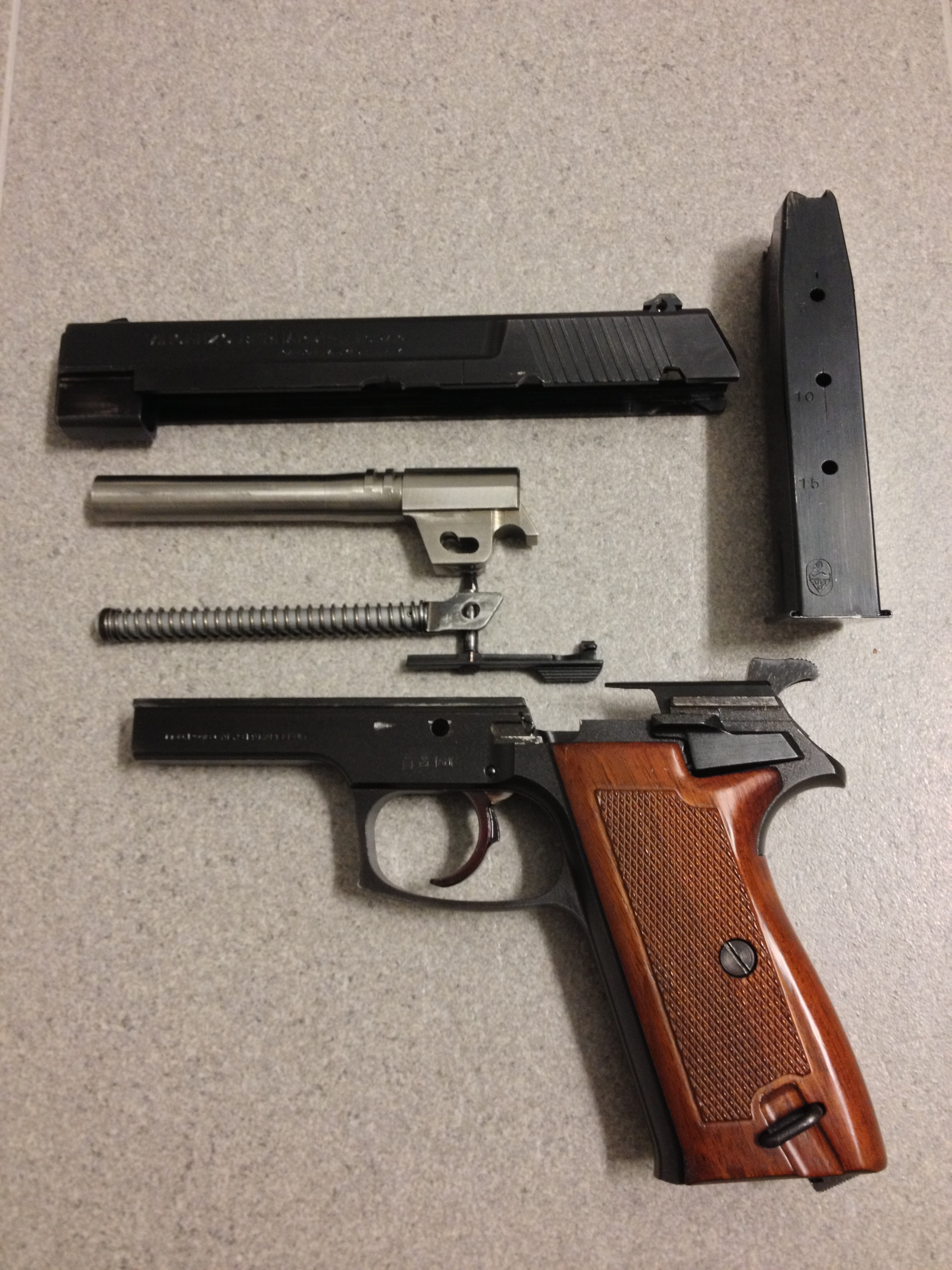 Bernardelli P-018 field strip